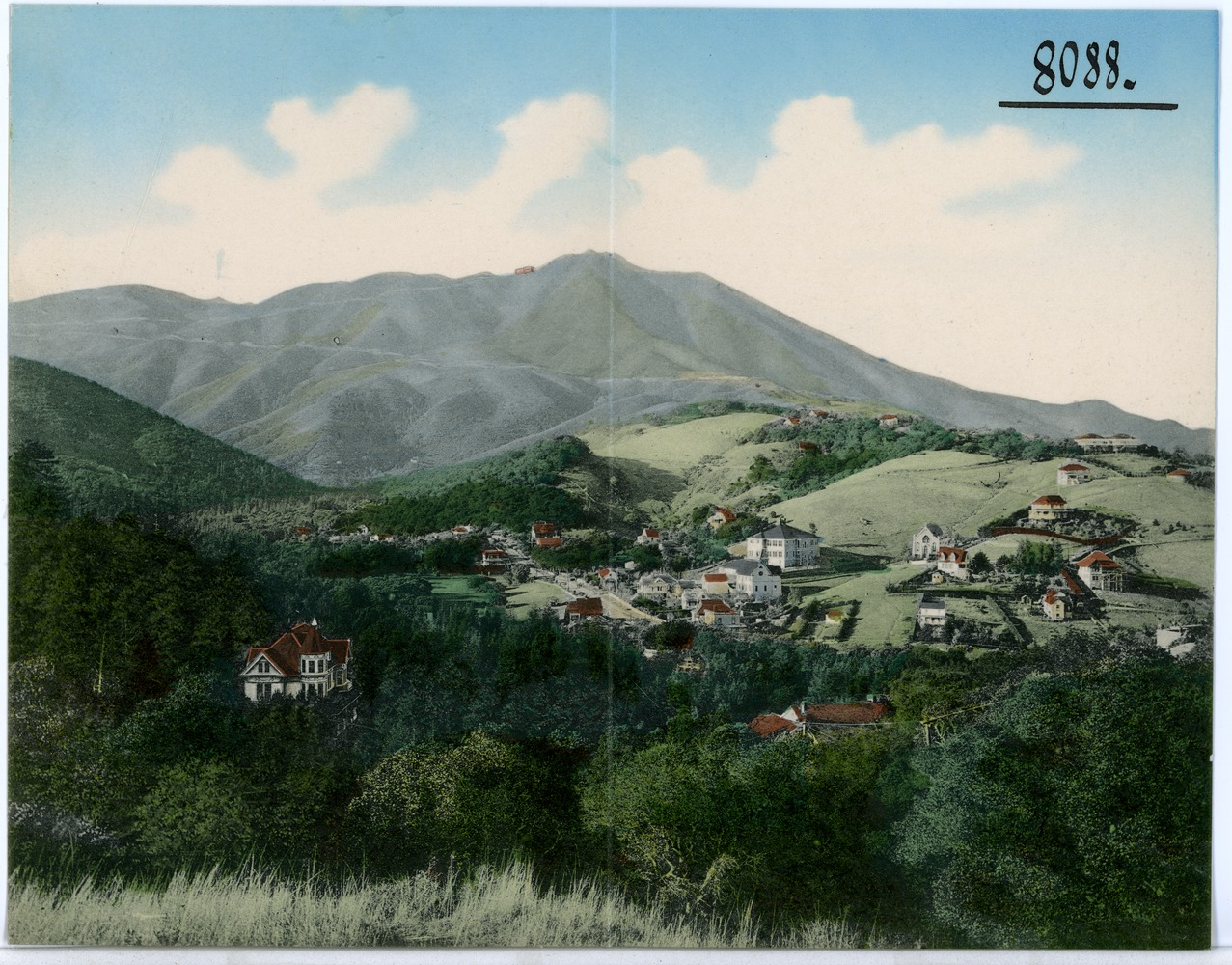 This postcard is from publisher Brück & Sohn in Meißen ( This postcard has a unique number 08088 and is available in a higher resolution at the publisher. This images was uploaded in a cooperation project between Wikipedians and the publisher.